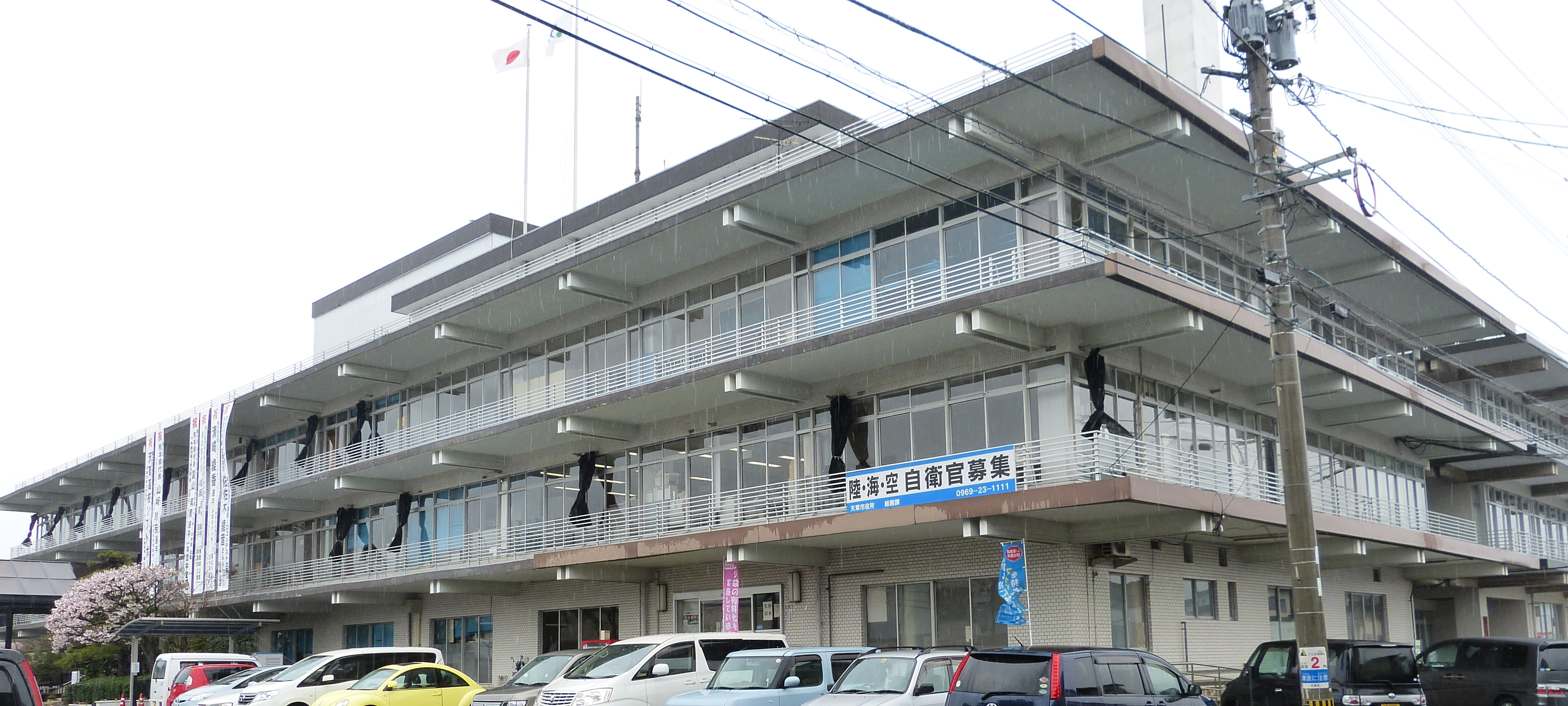 Amakusa city hall,Kumamoto prefecture,Japan